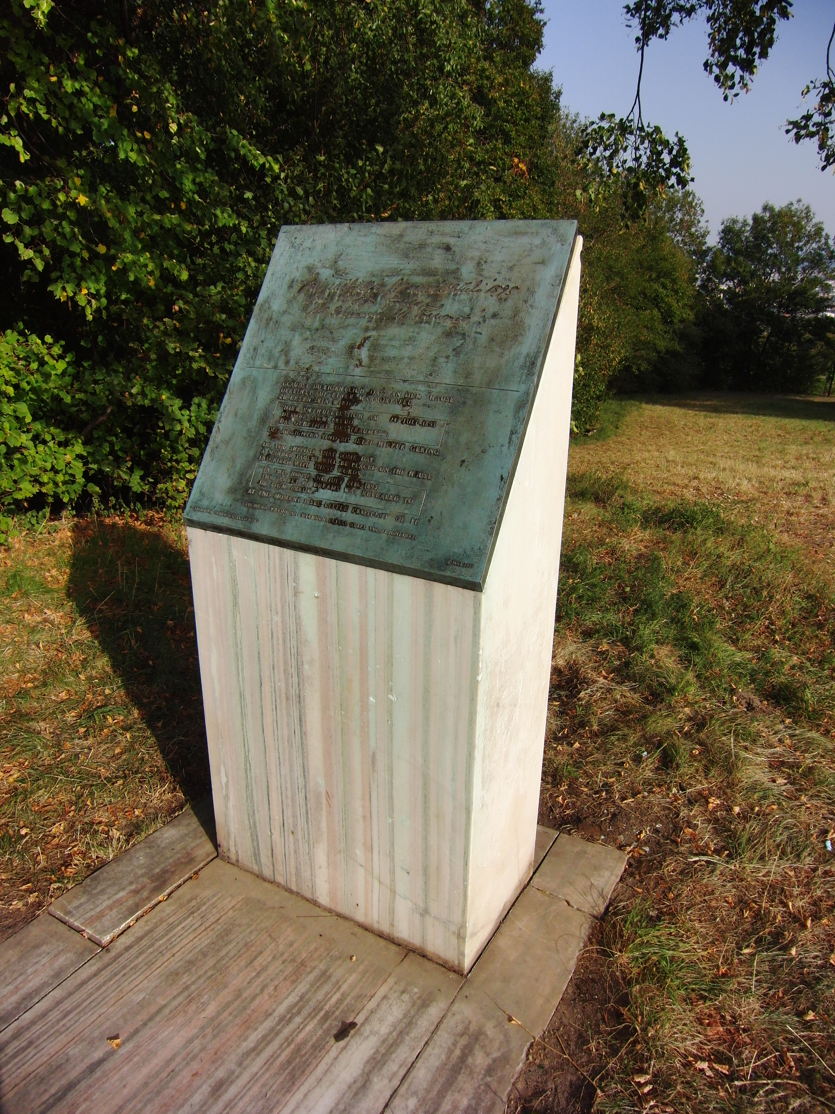 Sigmund Freud-Stele on Cobenzl in Vienna. Text: „Do you suppose that some day a marble tablet will be placed on the house, inscribed with these words: "In this house on July 24th, 1895, the secret of dreams was revealed to Dr. Sigm. Freud." At this moment I see little prospect on it.“ (Sigmund Freud an Wilhelm Fließ. Belle Vue. 12. Juni 1900) Sigmund Freud-Gesellschaft 6. Mai 1977